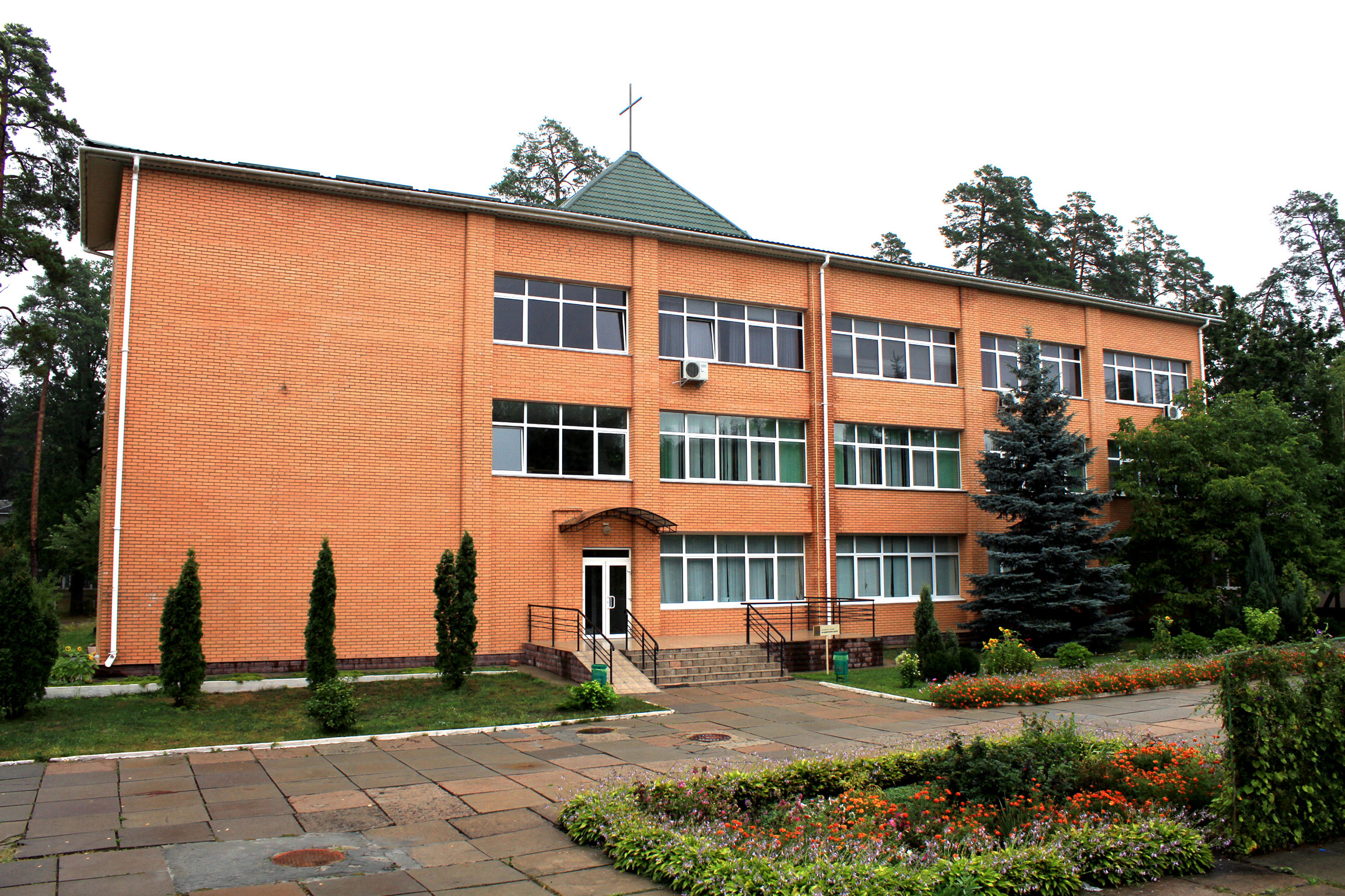 Academic center of Ukrainian Evahgelical Theological Seminary